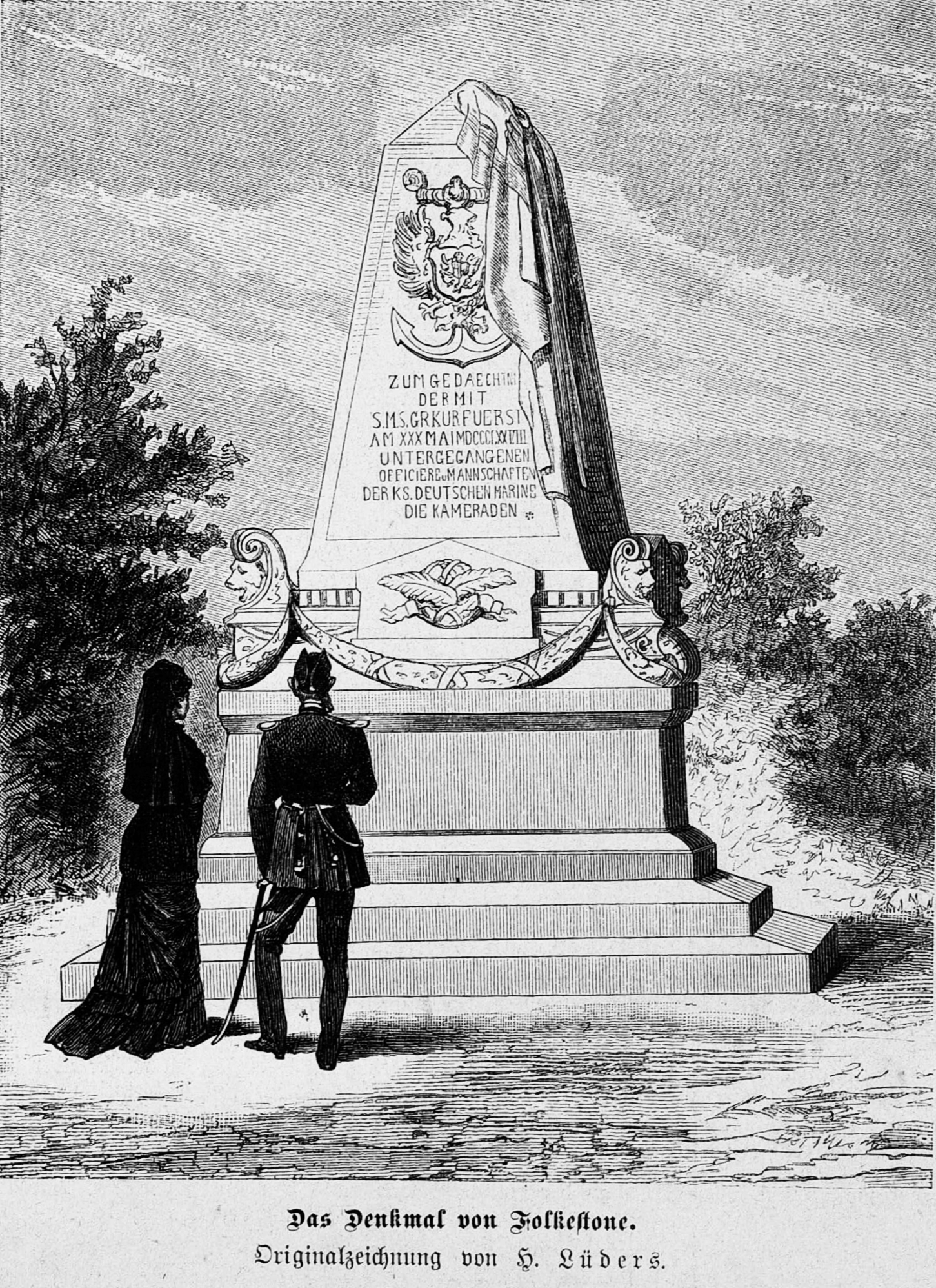 no caption